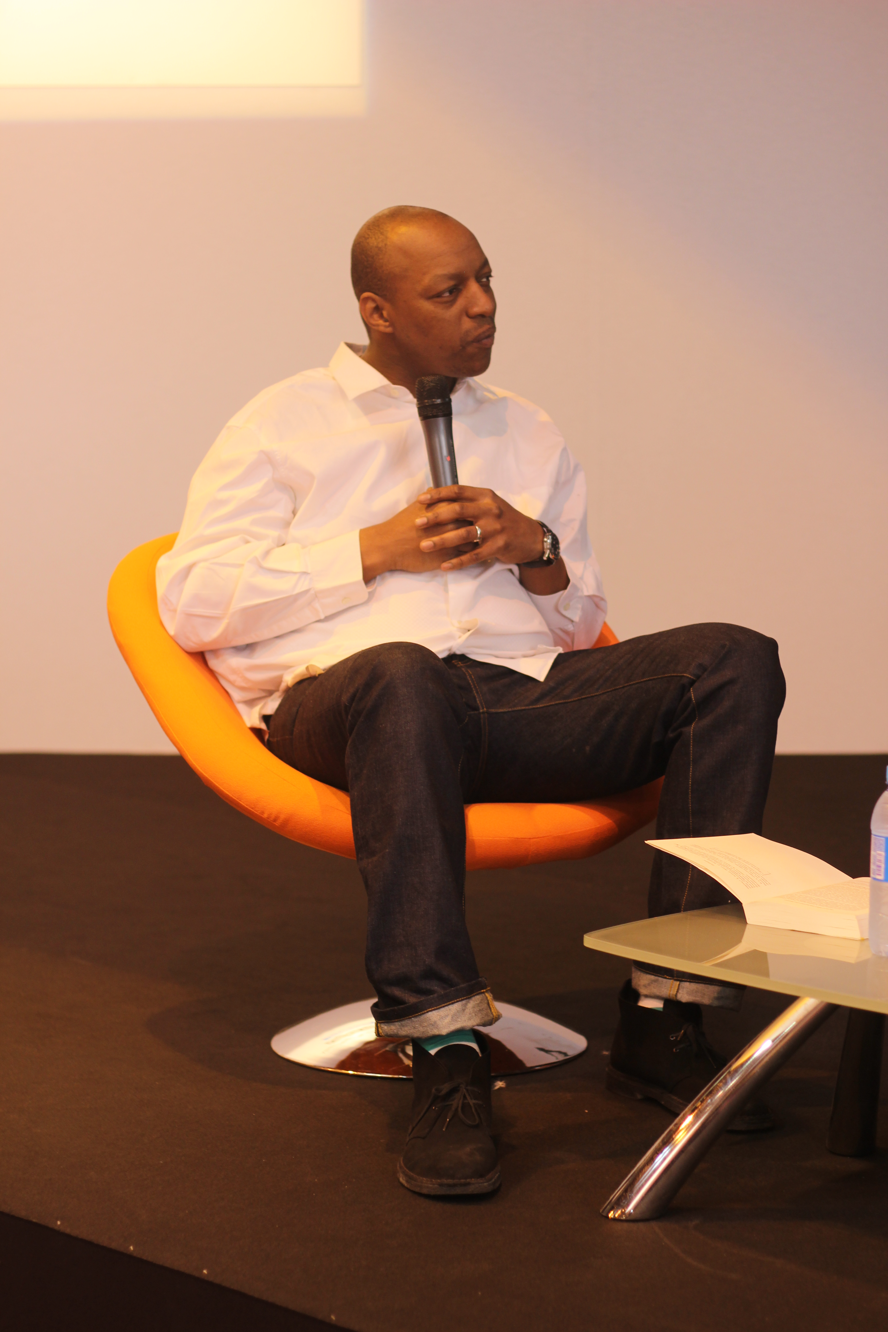 Paris Book Fair, 21-24 March 2014.